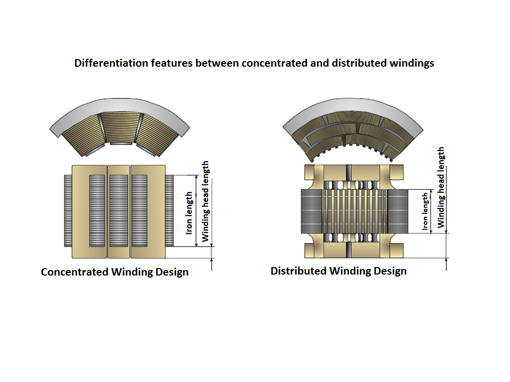 Unterscheidungsmerkmale zwischen konzentrierter und verteilter Wicklung en